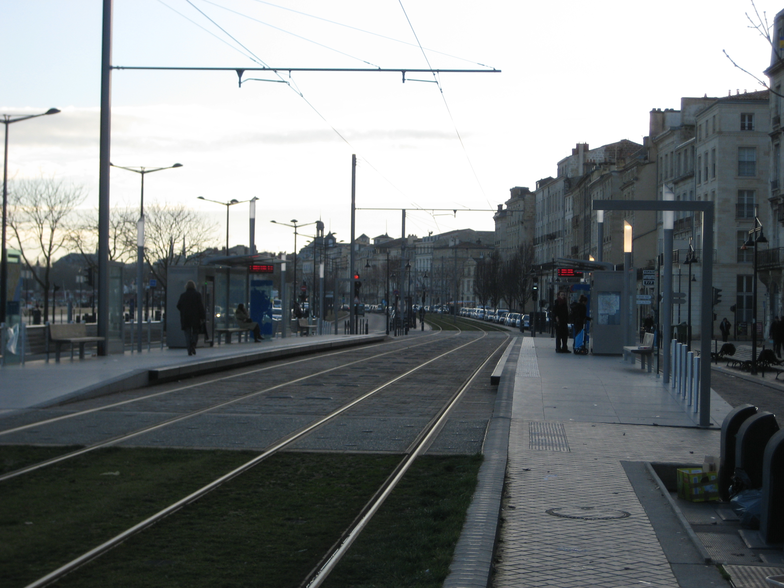 Station Chartrons of the Tram de Bordeaux